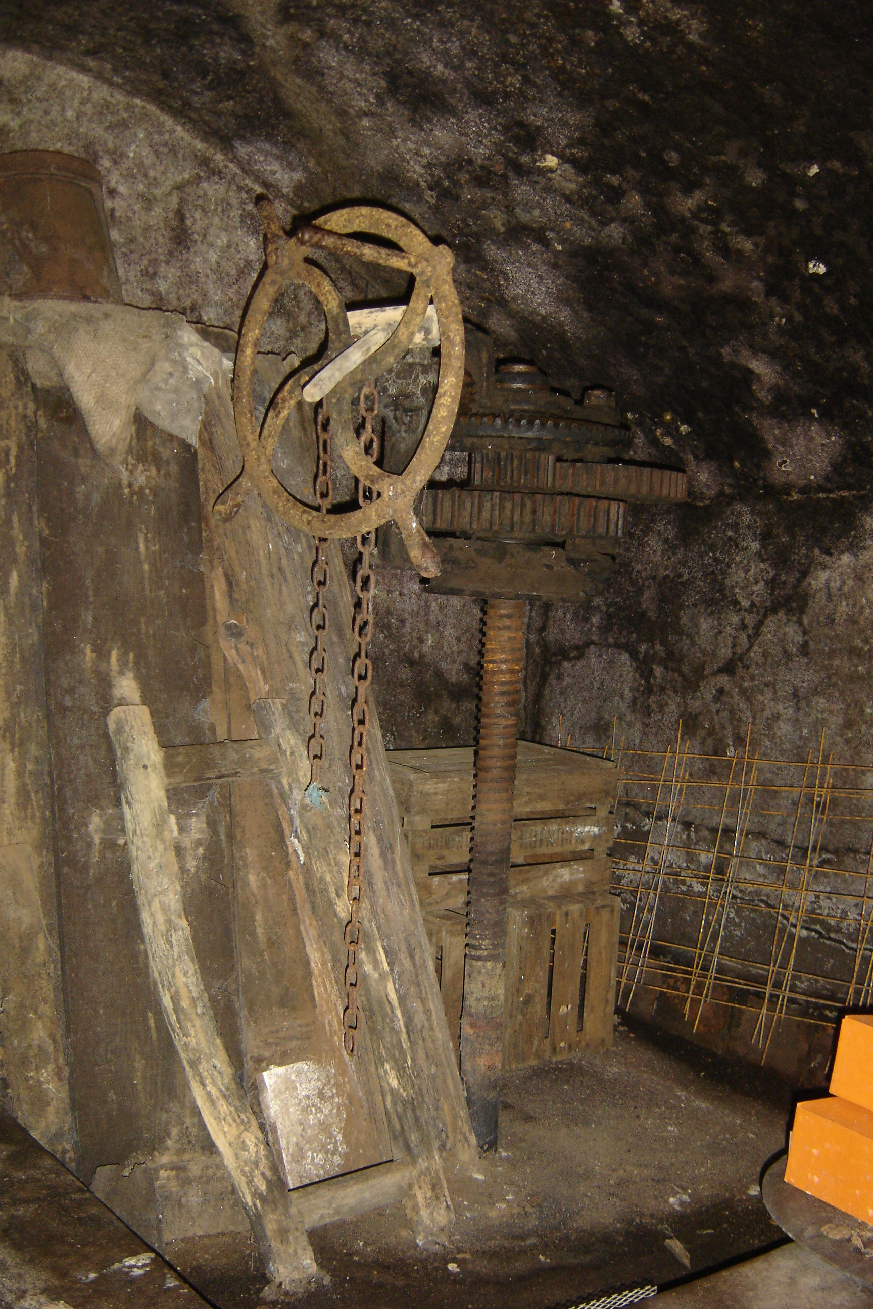 Ancien pressoir cave de Châtenay à Cerelles France (37)